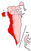 Map of Bahrain showing Al Mintaqah al Gharbiyah municipality. The municipalities were dissolved in 2002 and replaced with governorates.